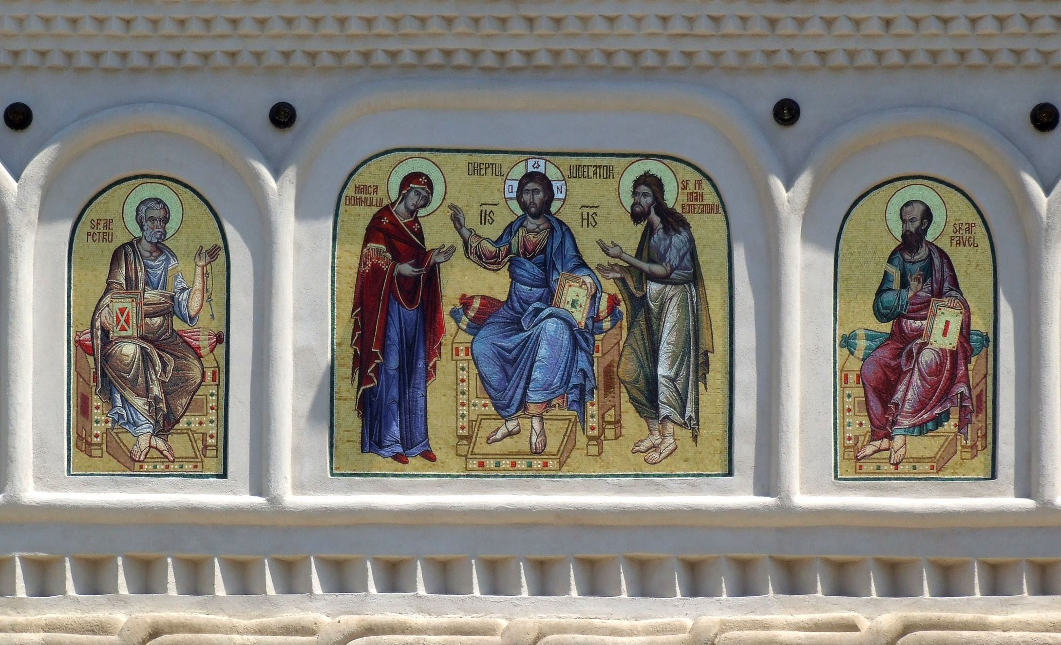 Romanian Patriarchal Cathedral in Bucharest - external mosaics.